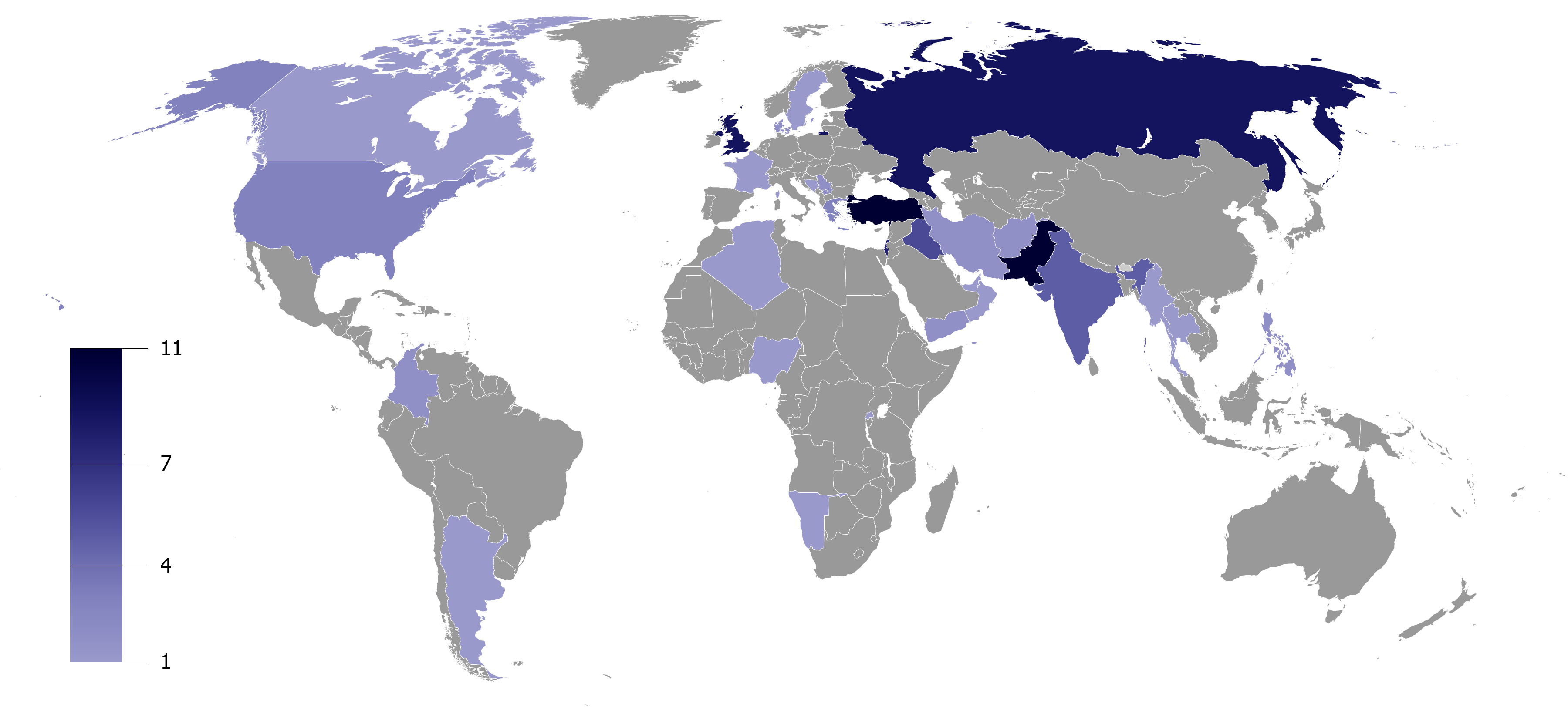 Number of terrorist incidents reported in 2010.